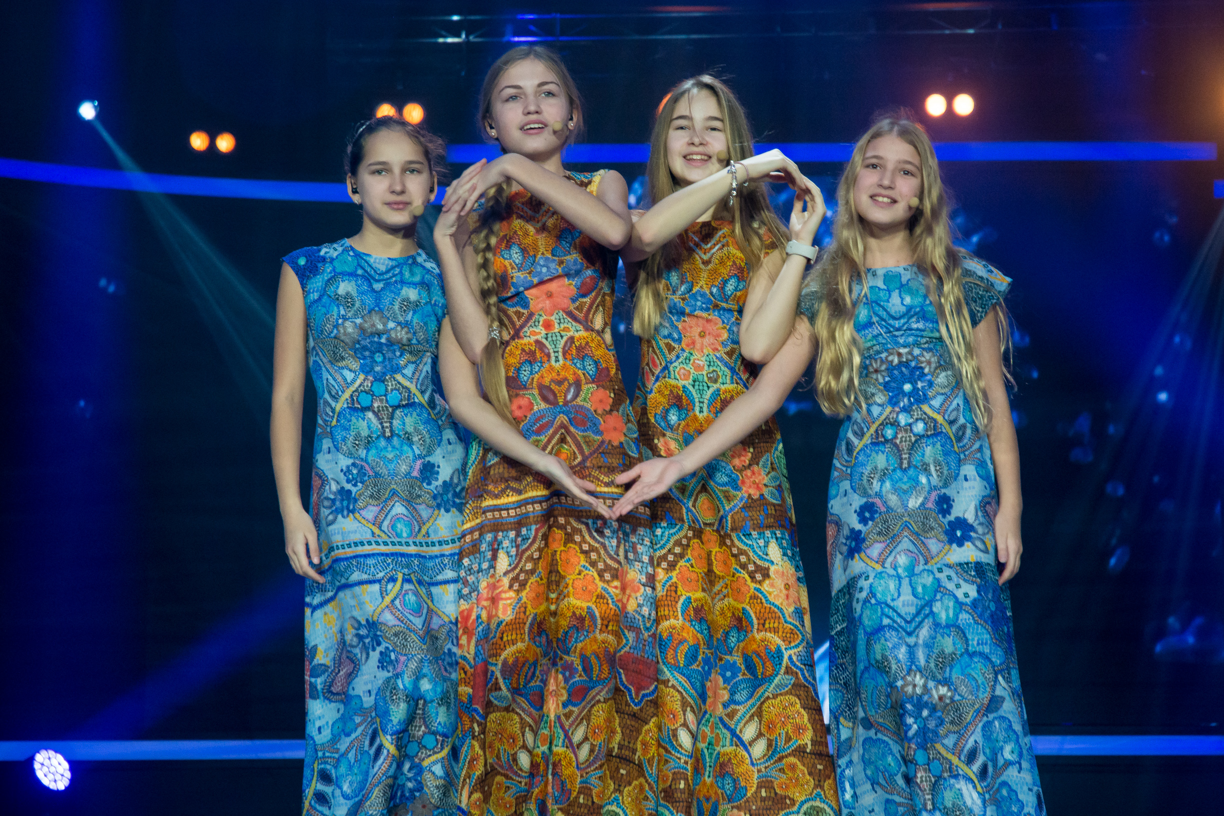 JESC 2016 participants: The Water of Life Project (Russia)